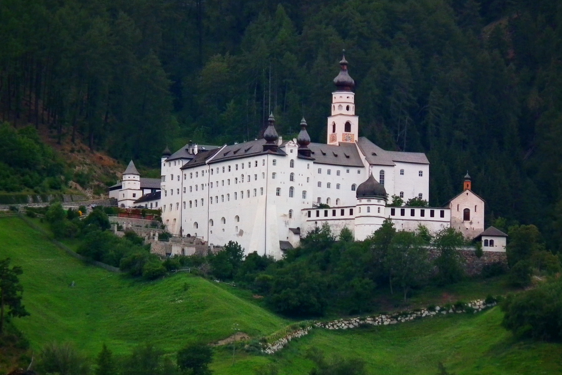 Marienberg Abbey Native nameAbbazia di Monte Maria/Abtei MarienbergLocationBurgeis, ItalyCoordinates46° 42′ 22.19″ N, 10° 31′ 14.39″ E Established1150 (Consecrated)Web page control : Q334022 VIAF: 154456762 GND: 2165566-2 institution QS:P195,Q334022